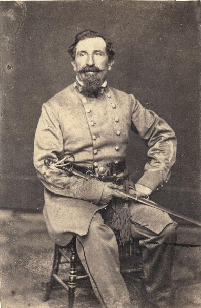 Adolphus Heiman (1809-1862) as Colonel in the Confederate States Army during the American Civil War. State Historical Society of Wisconsin, Image ID: 31966